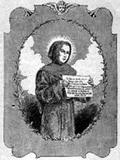 Agnellus of Pisa (1194-1235)